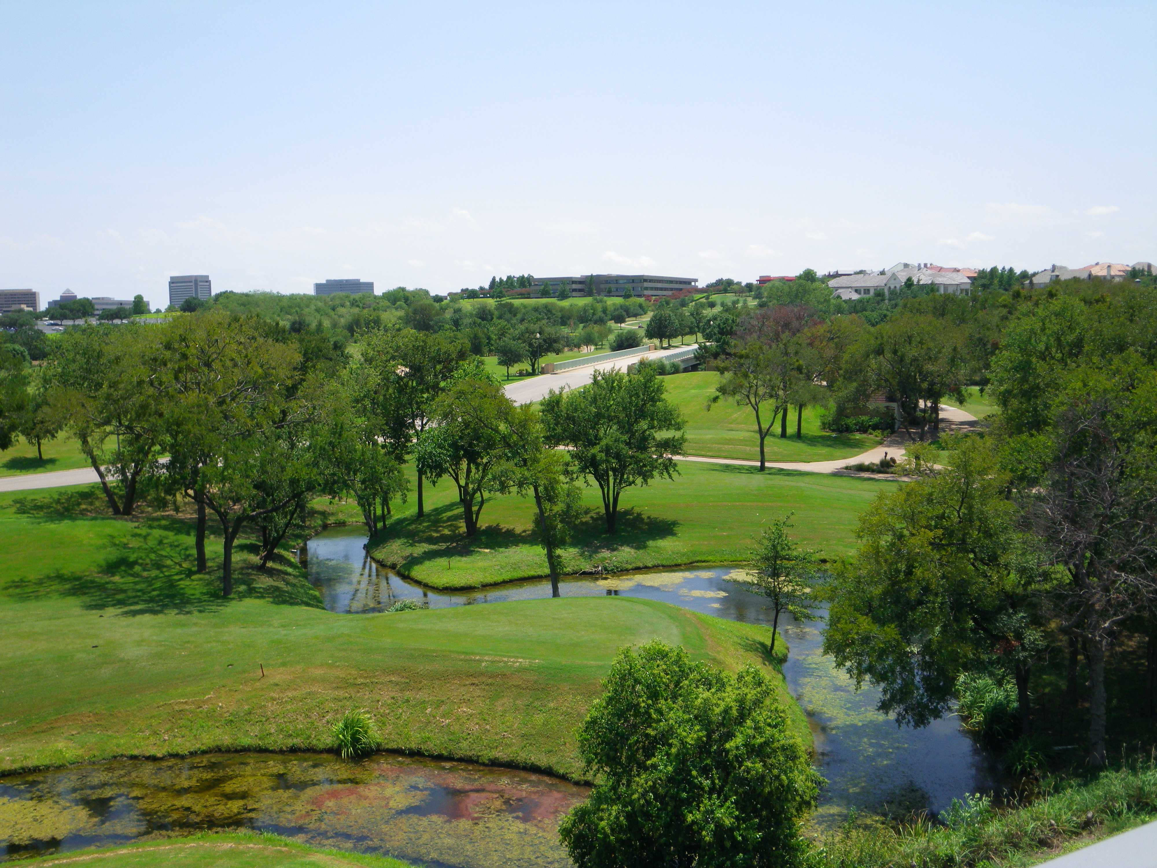 Photograph of the TPC Four Seasons Las Colinas, a golf course in Irving, Texas. This course is the location of the Byron Nelson Championship, a PGA TOUR event. In the background to the right appears some of the building and private residences on this course. In the center, further away, are some of the many office towers forming part of the Las Colinas commercial development.